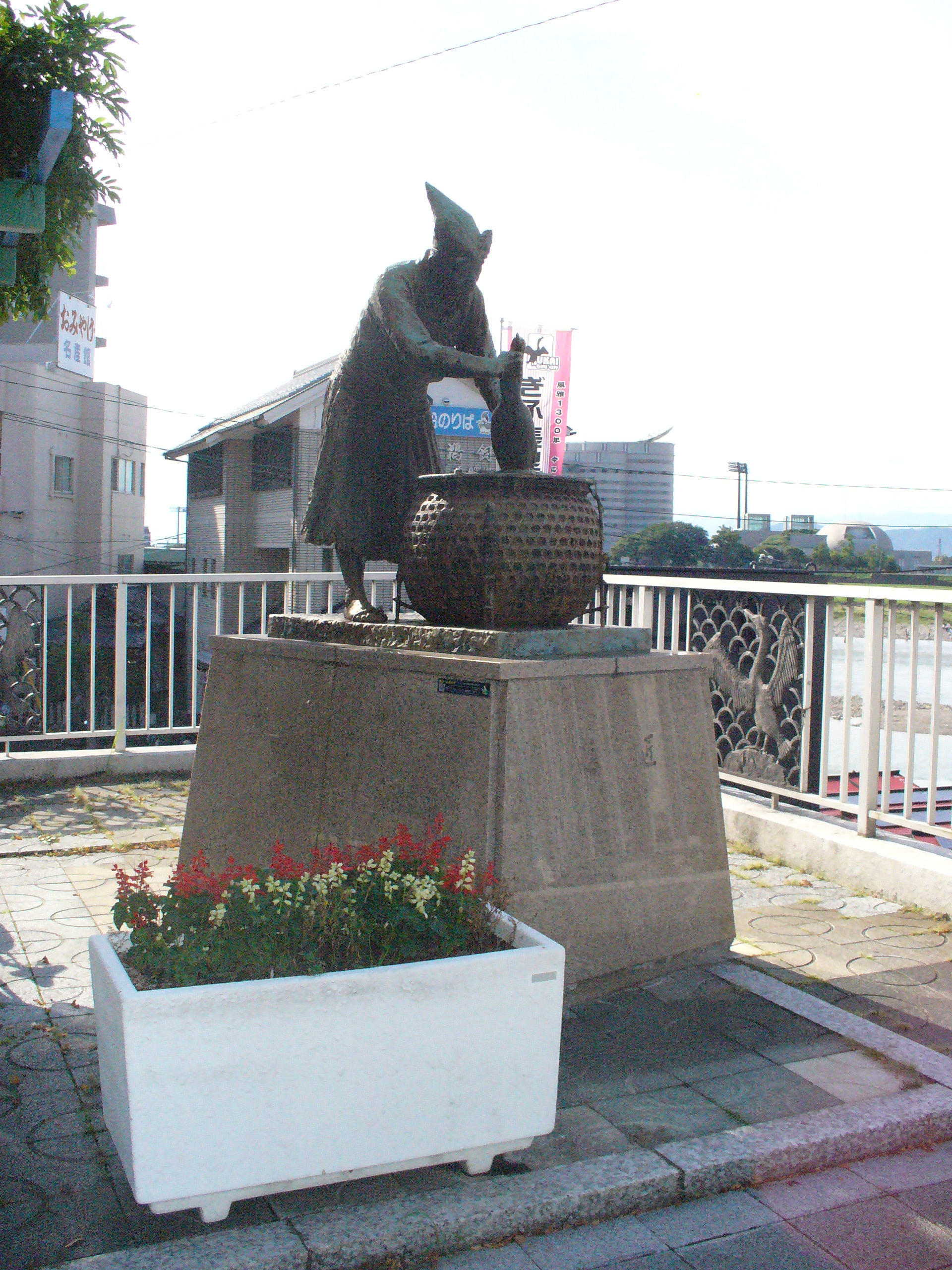 Ukai Nagaragawa（長良川鵜飼）,Gifu,Gifu(岐阜県岐阜市)で撮影。長良橋南詰にある「鵜匠の像」。 The cormorant fishing master bronze statue.